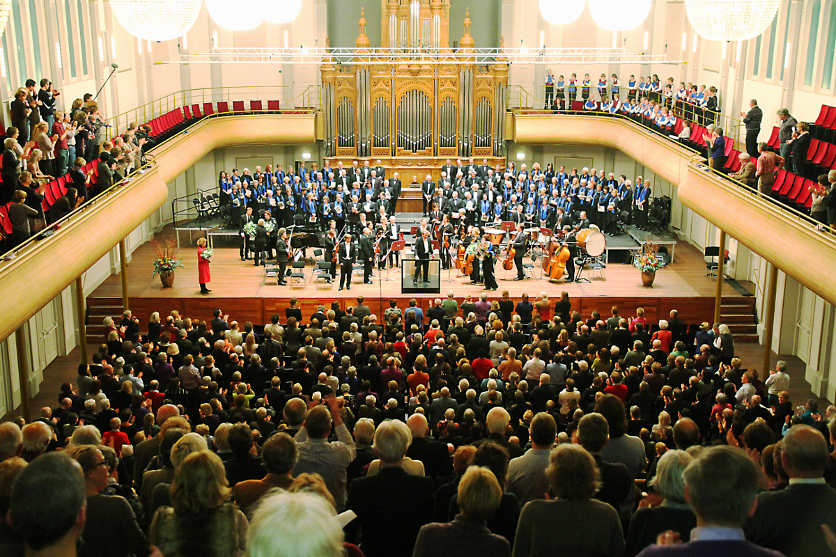 Concertkoor Haarlem performing in the Philharmonie Haarlem